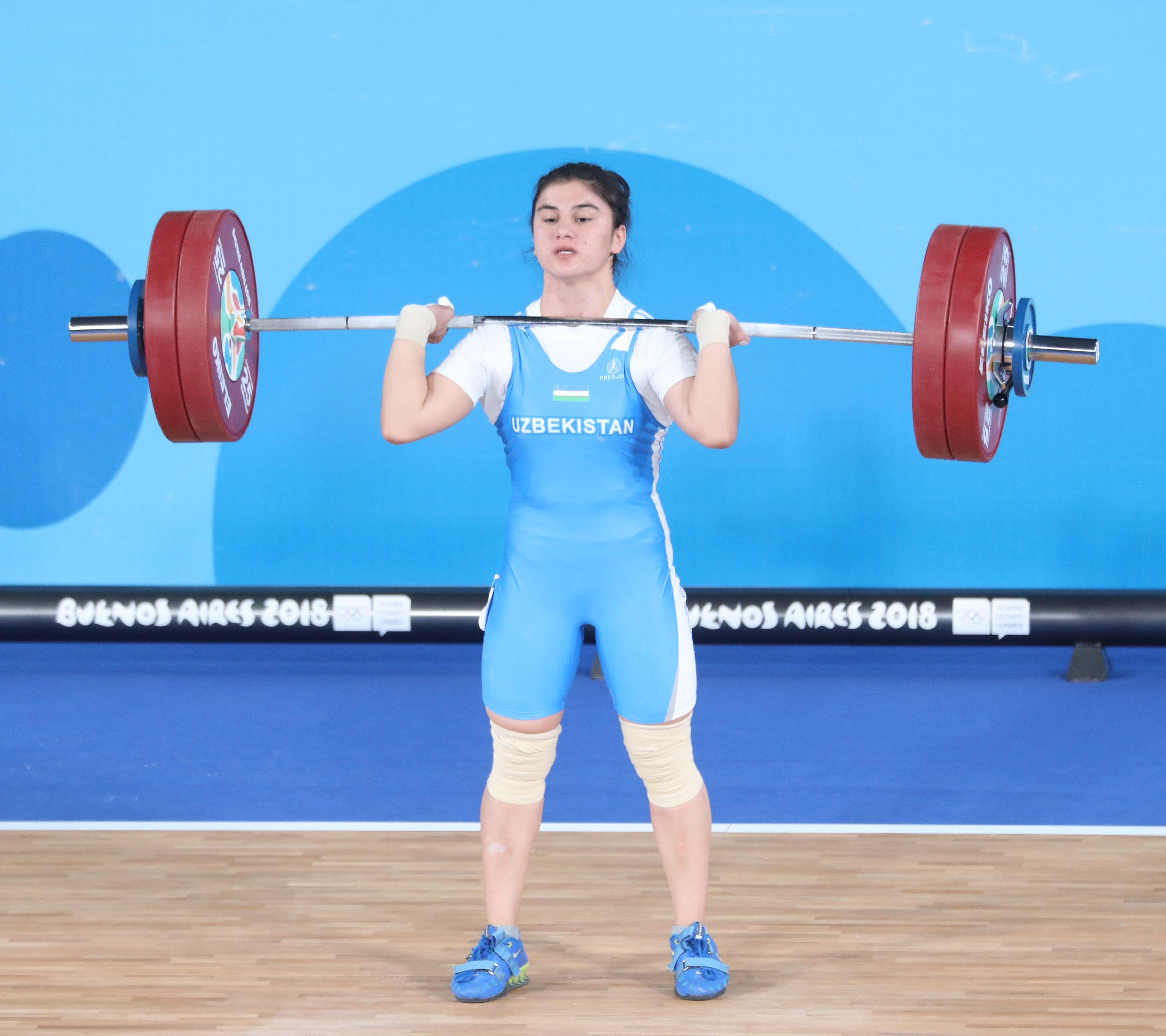 Weightlifting girls' 63 kg at the 2018 Summer Youth Olympics in Buenos Aires on 12 October 2018. Clean & Jerk.